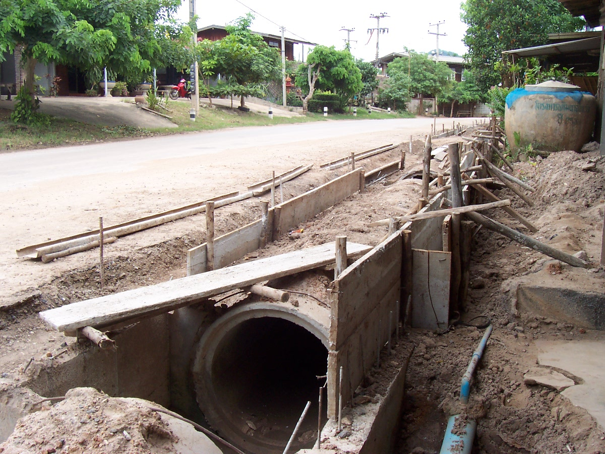 water pipes construction (การก่อสร้างท่อระบายน้ำ)-- Huaikhot, Uthaithani, Thailand